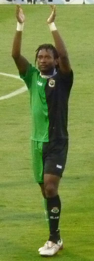 Mohammed Tchité in 2009